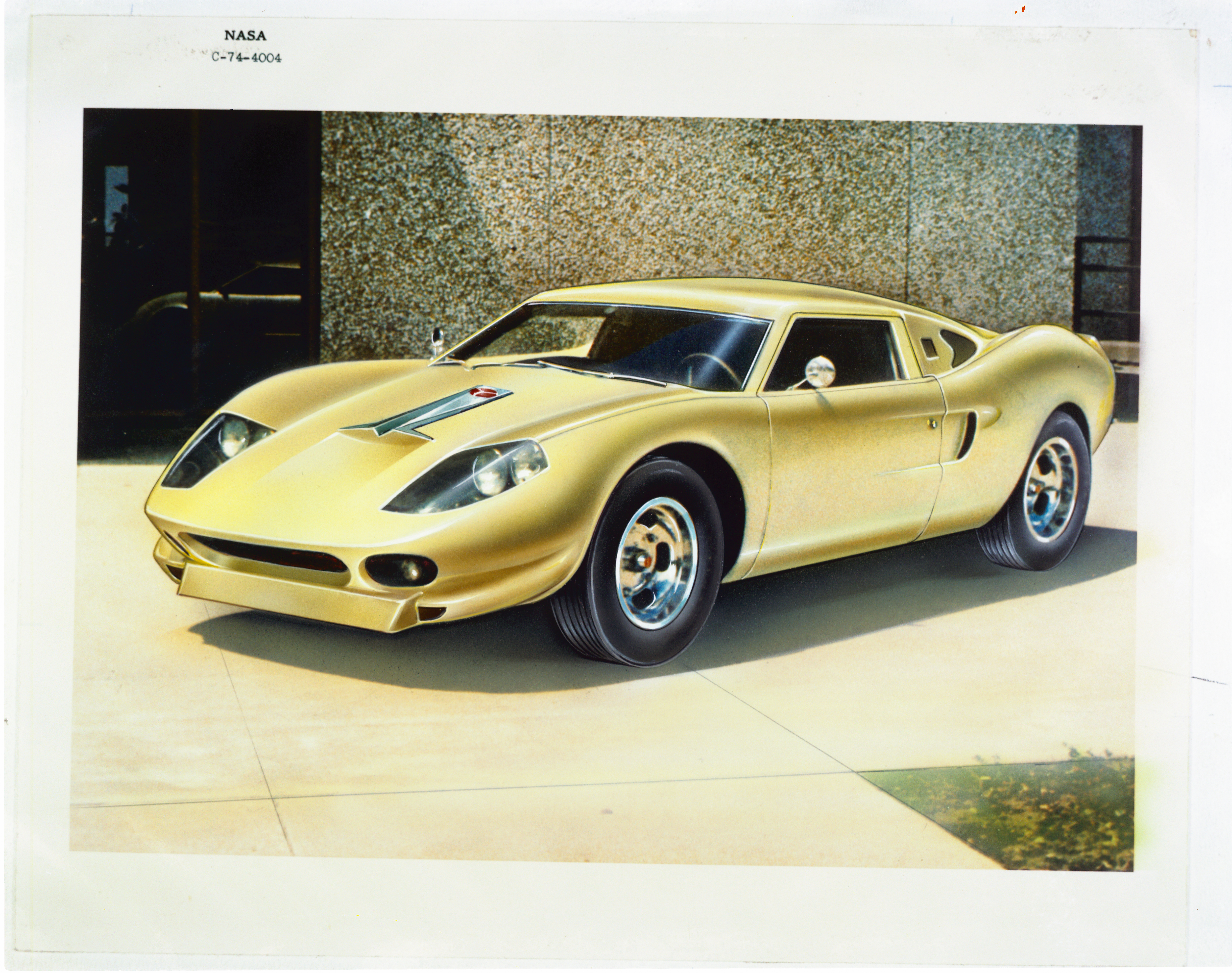 Scope and content: The original finding aid described this as: Capture Date: 5/16/1975 Photographer: DONALD HUEBLER Keywords: Larsen Scan